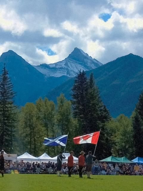 Opening Ceremonies of the 2004 Highland games in Canmore, Alberta Canada. Colour guard pictured at foot of mountain. Photo taken by Dr Haggis on 5SEP04